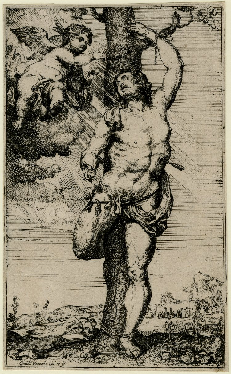 St.-Sebastian